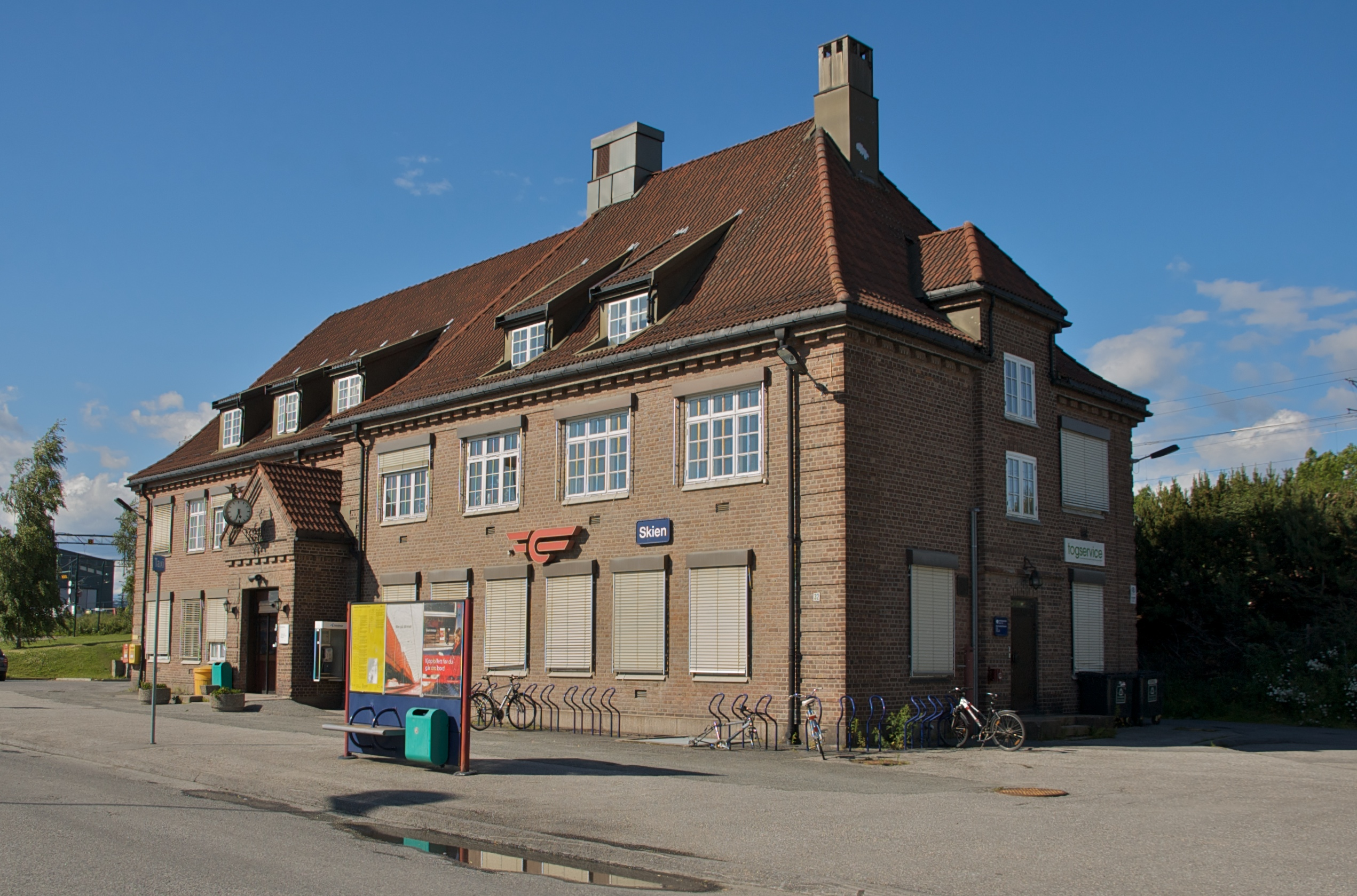 The railway station building in Skien, Norway.